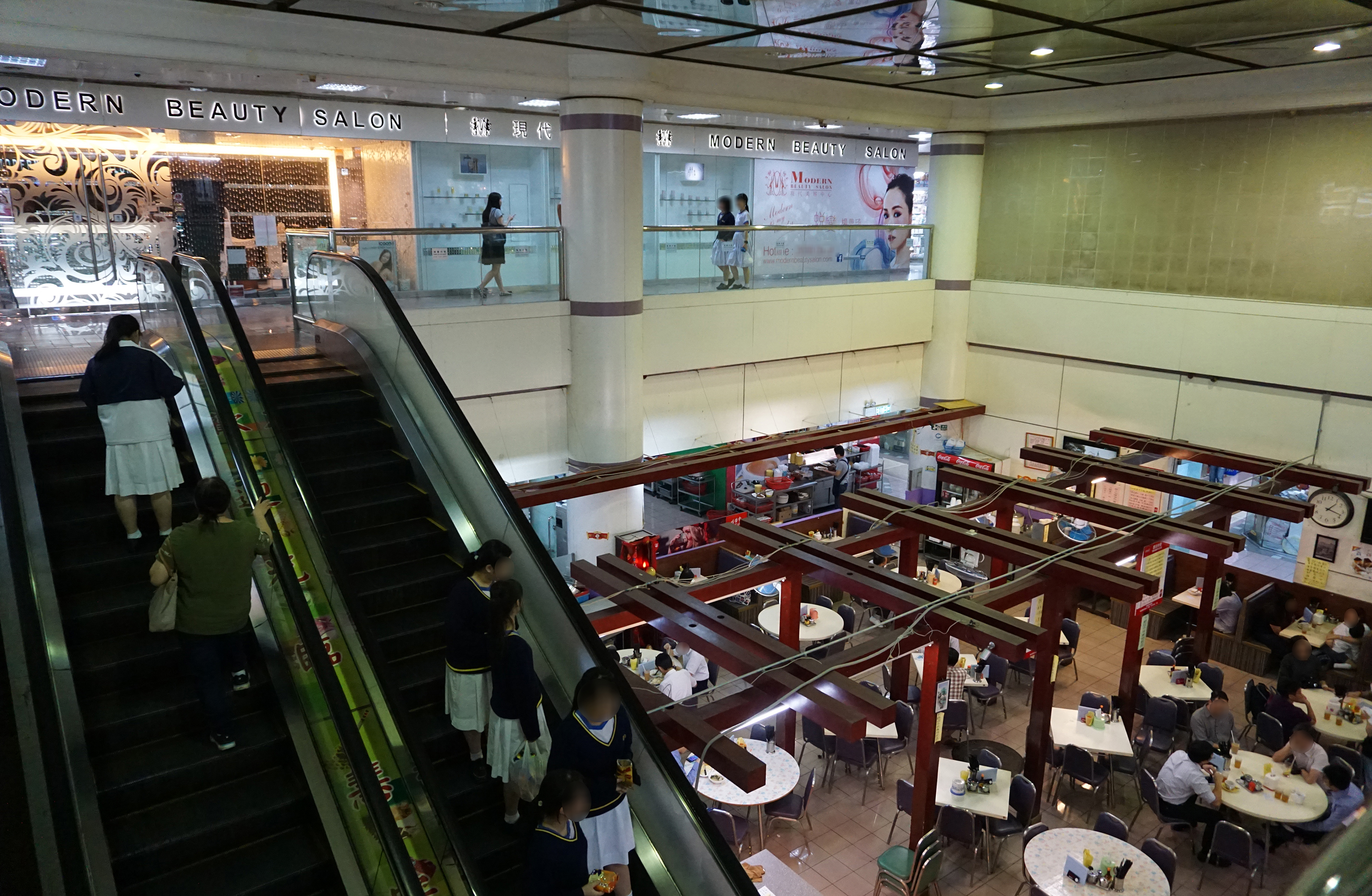 Well On Garden in Po Lam, Hong Kong.